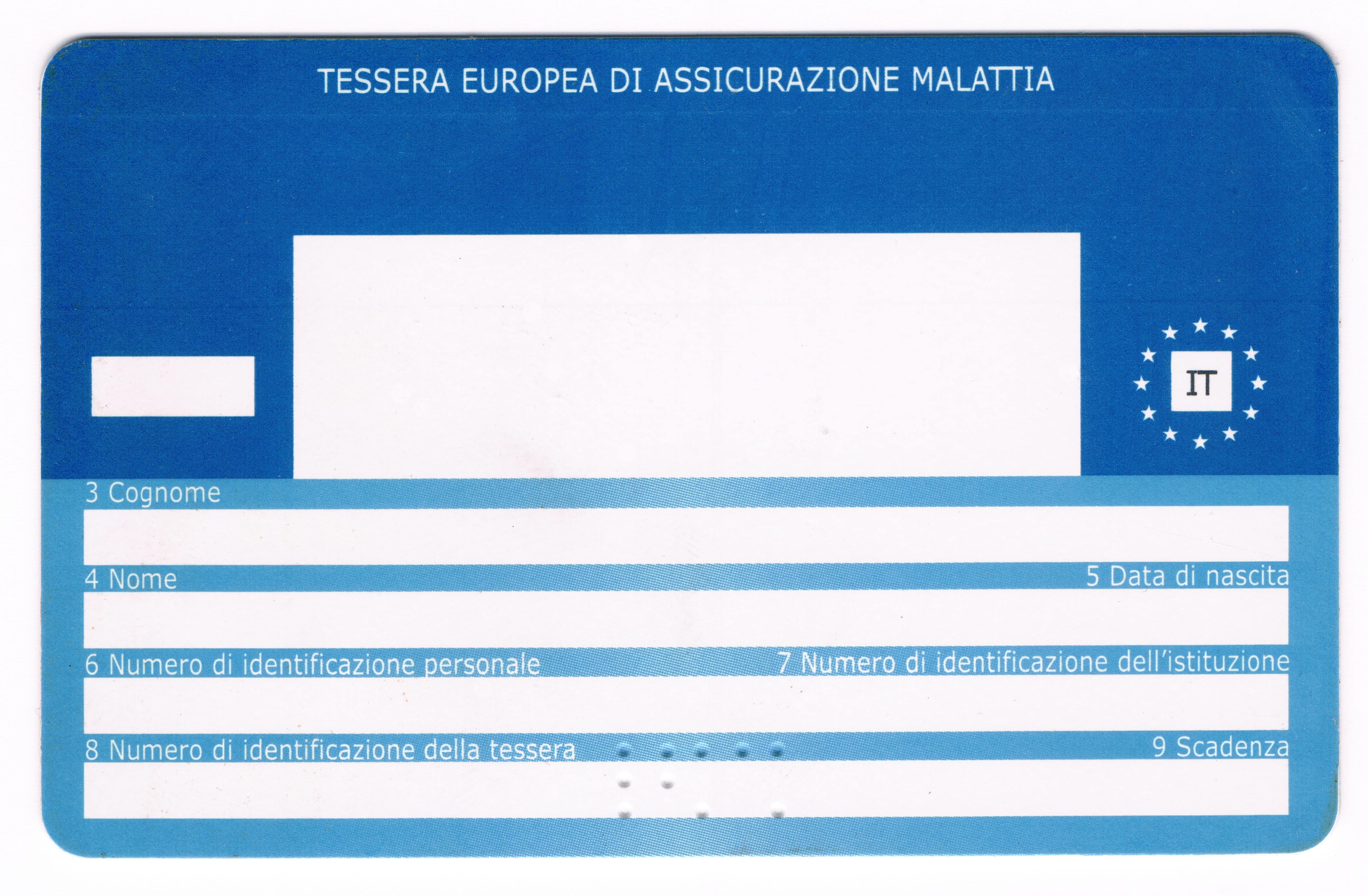 Italian health insurance card